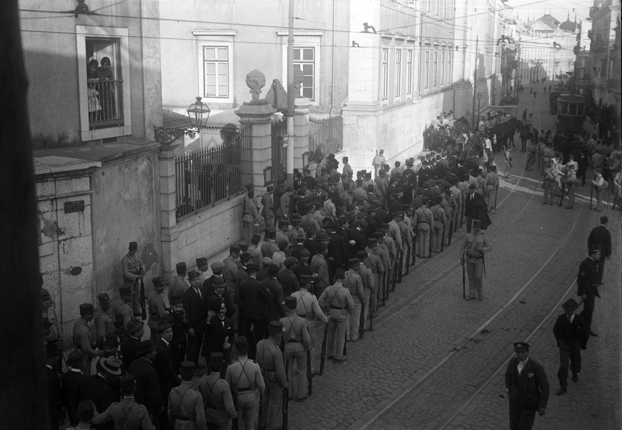 Strike of postal and telegraph workers in Portugal, 1920. The National Republican Guard (Guarda Nacional Republicana) surrounds those on strike.